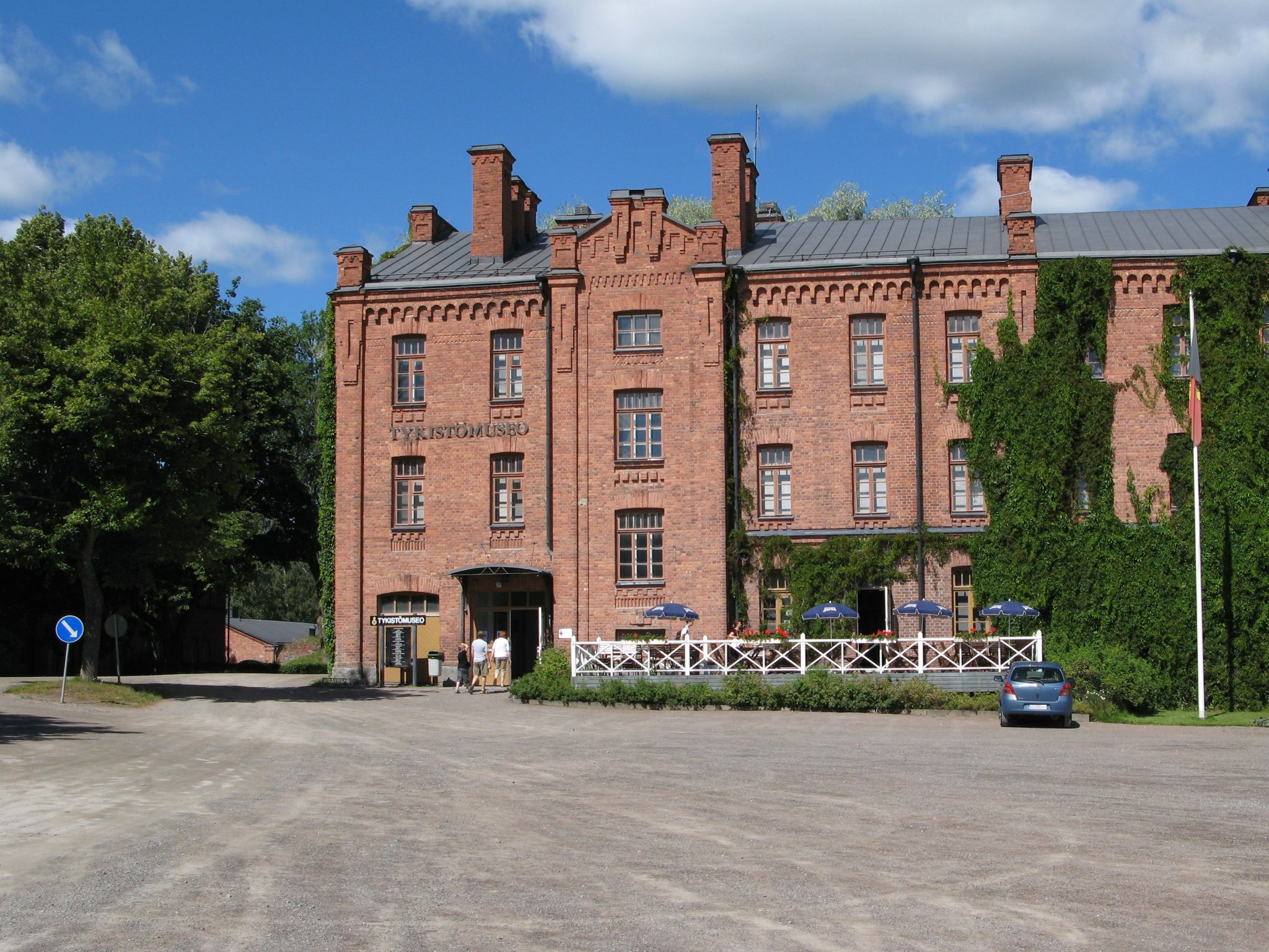 Linnankasarmi -barracks in Hämeenlinna, Finland.